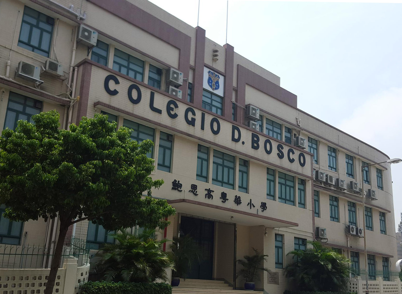 鮑思高粵華小學